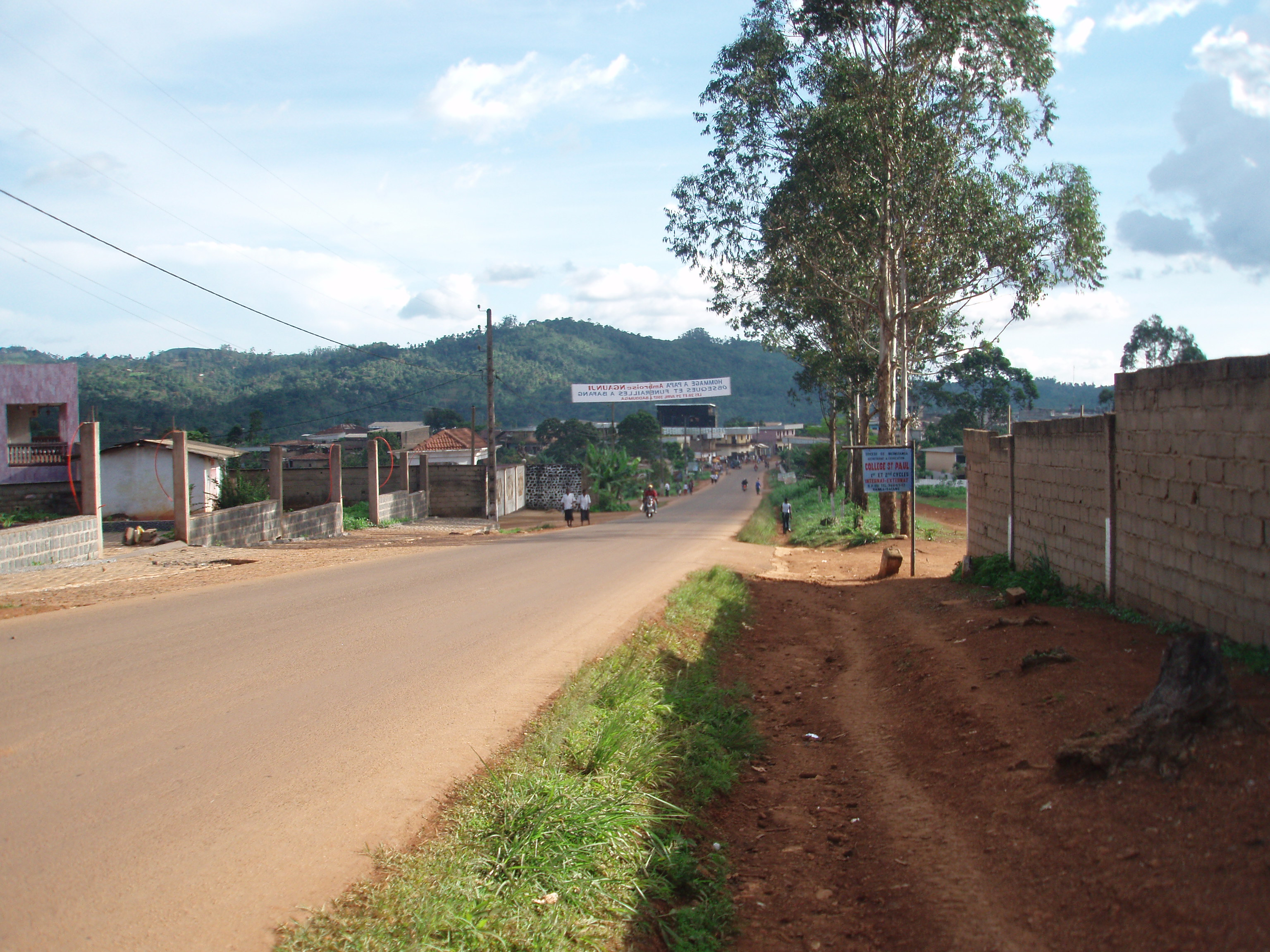 Football Field Bafang